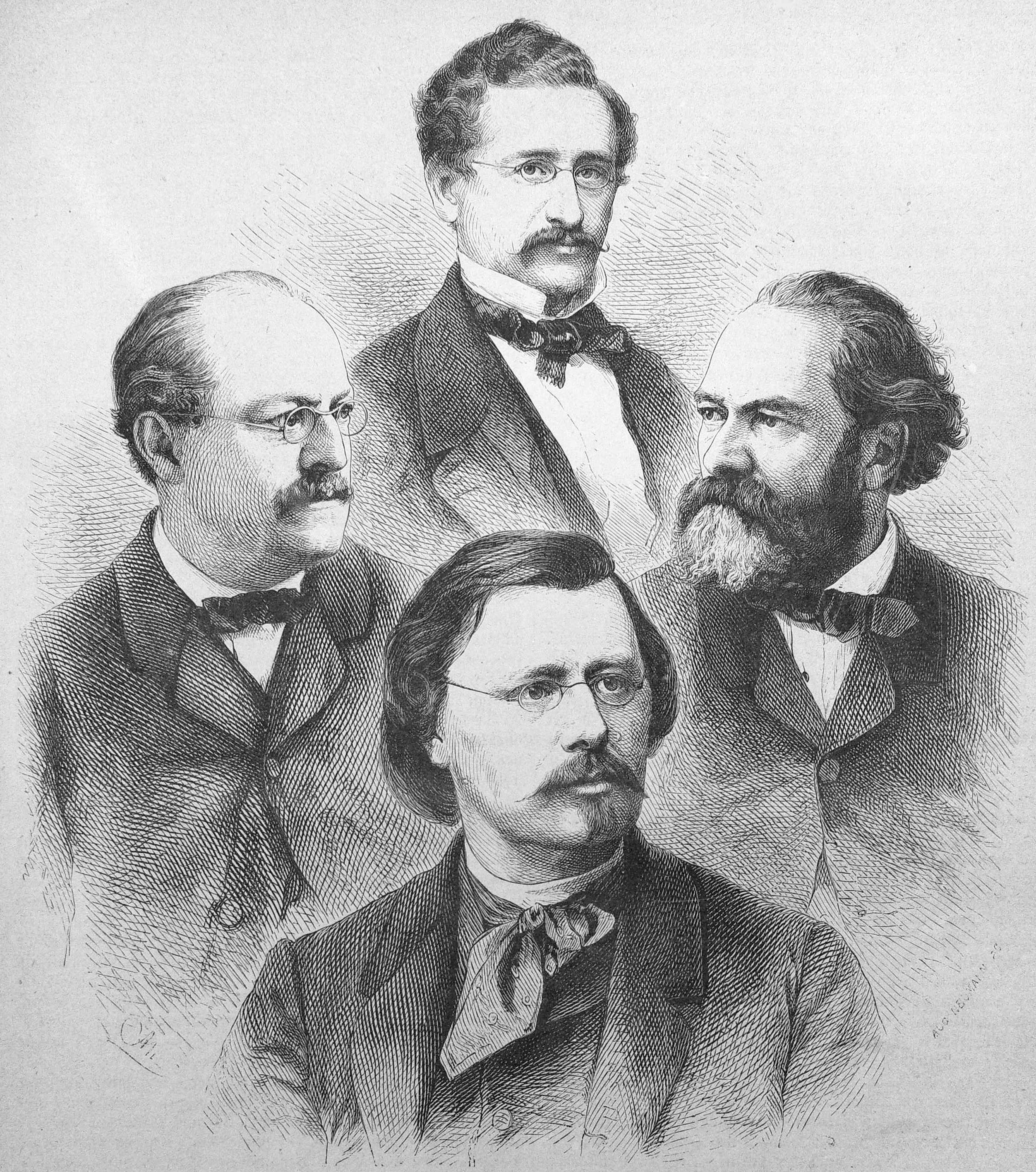 caption: "Die Gelehrten des Kladderadatsch. Ernst Dohm. David Kalisch. Rudolph Löwenstein. Wilhelm Scholz."